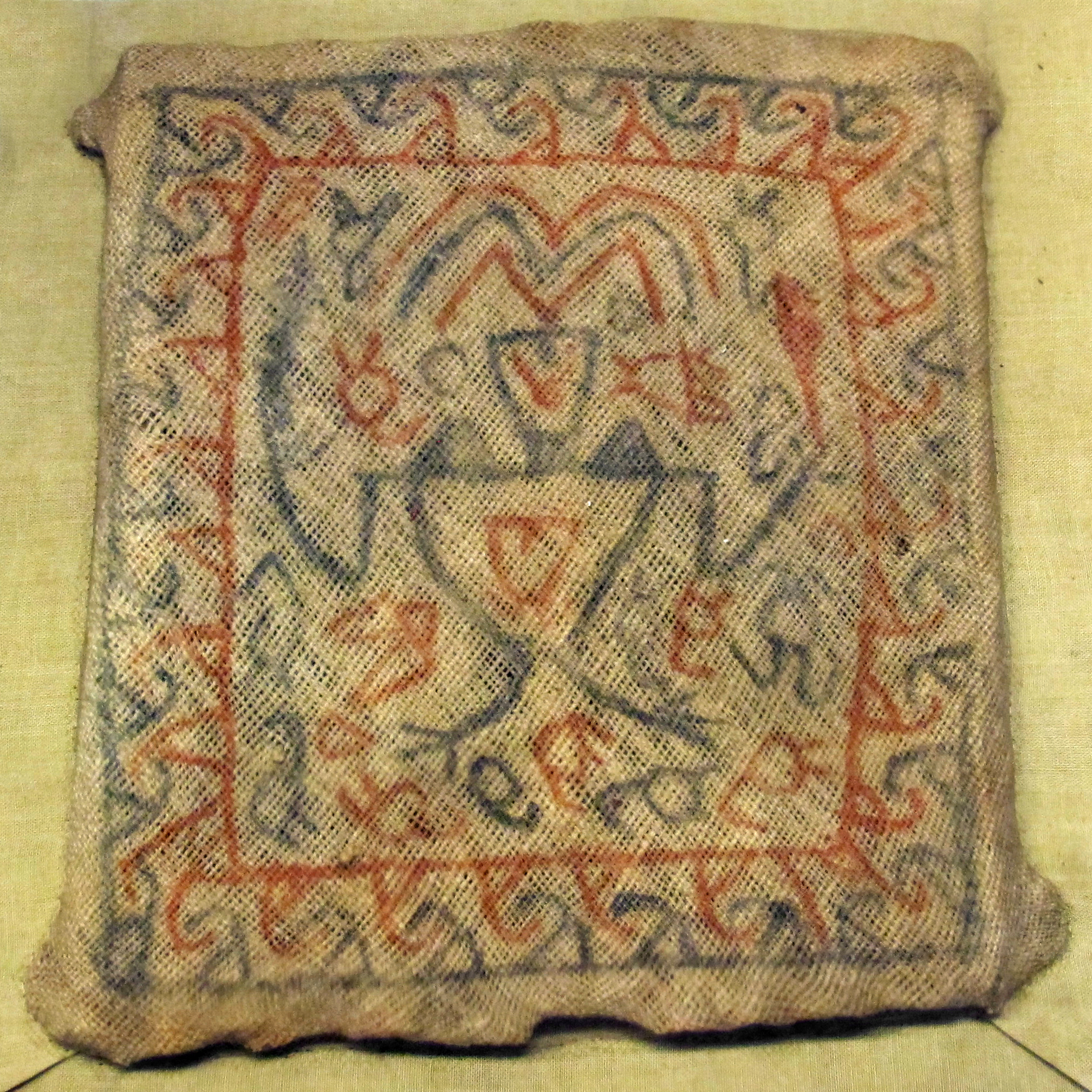 Museo di storia naturale (Florence) - Anthropology and Ethnography section - Peru